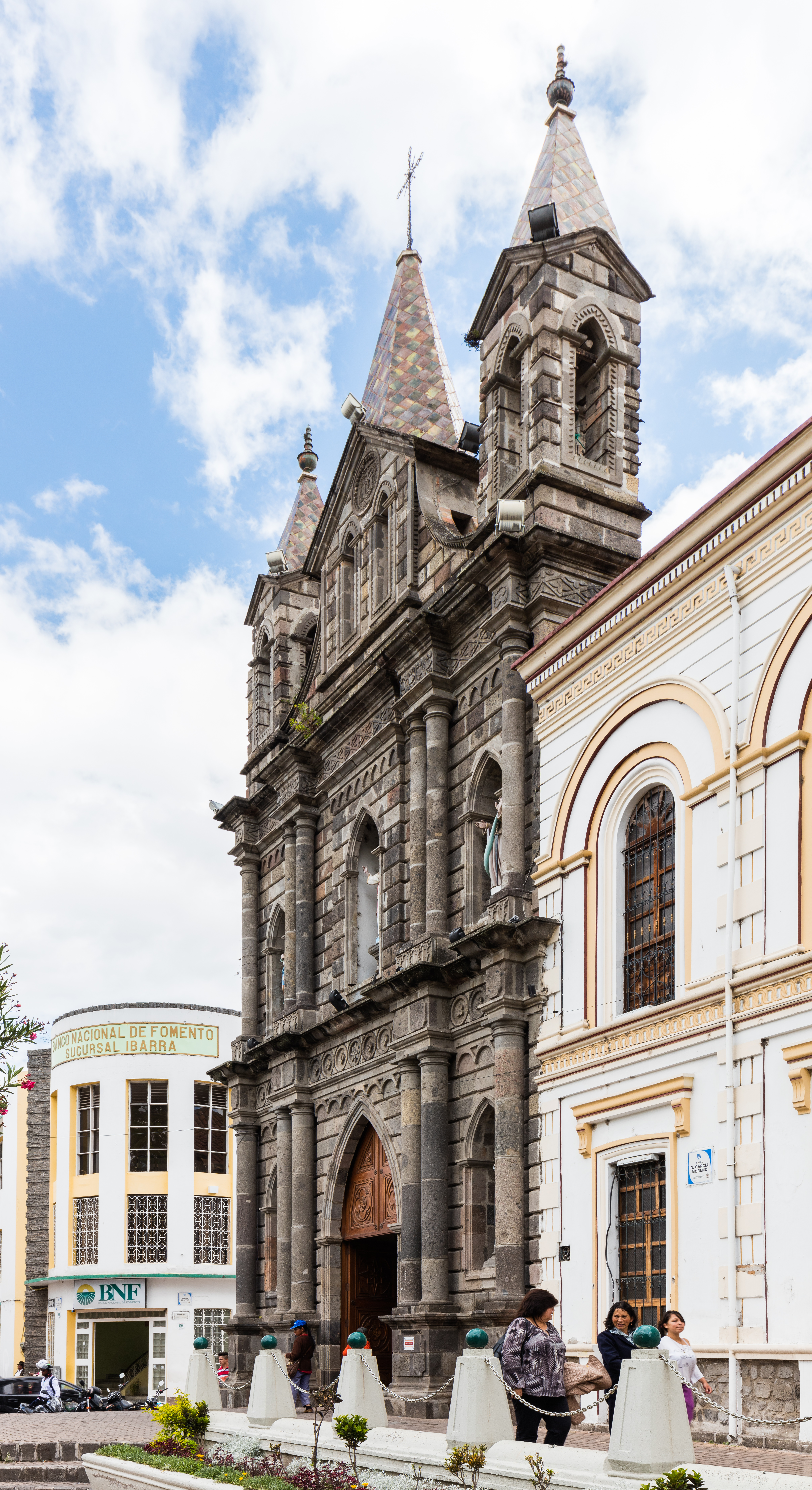 Episcopal church, San Antonio de Ibarra, Ecuador